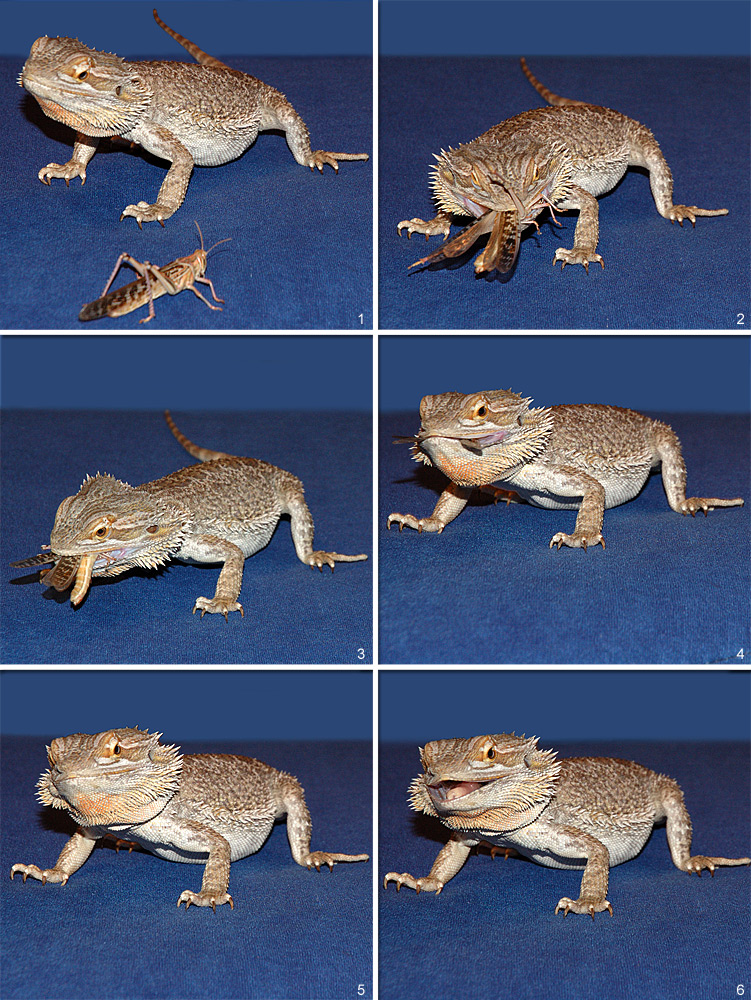 This image shows the feeding of a bearded dragon with a grasshopper. The six single pictures have been taken within 22.9 seconds in the shown order and edited and arranged using Photoshop. Making this picture from the first idea to the final image took me a total time of about 8 hours.